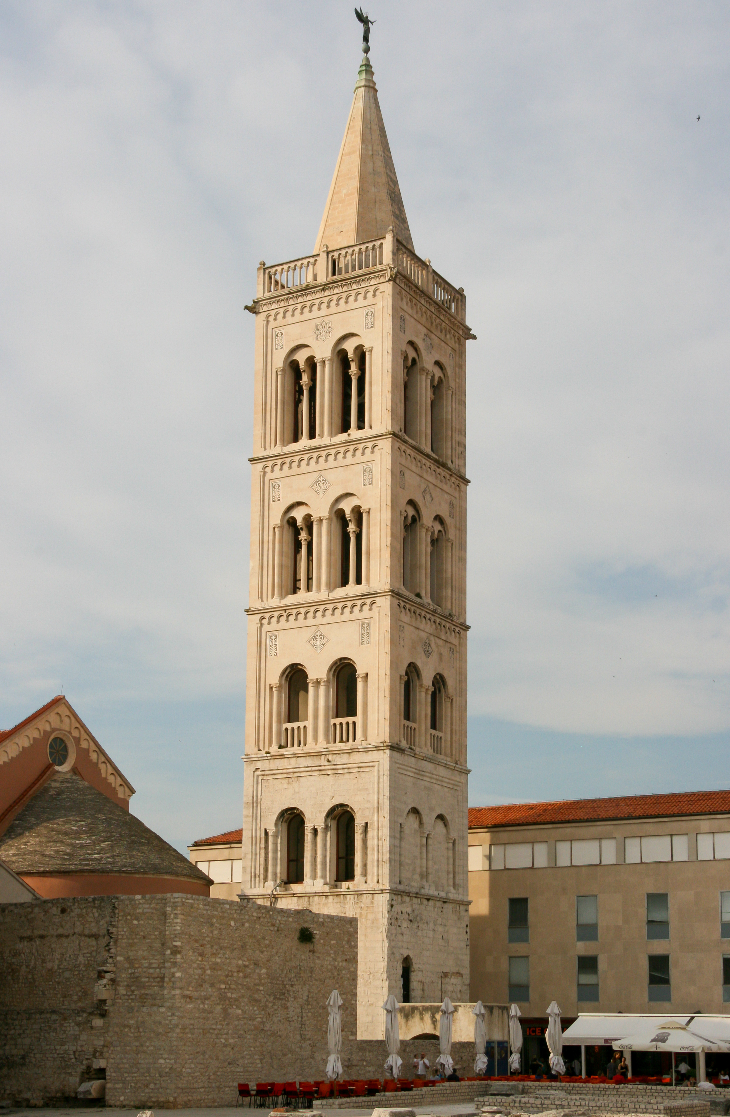 Cathedral of St. Anastasia in Zadar, Croatia.